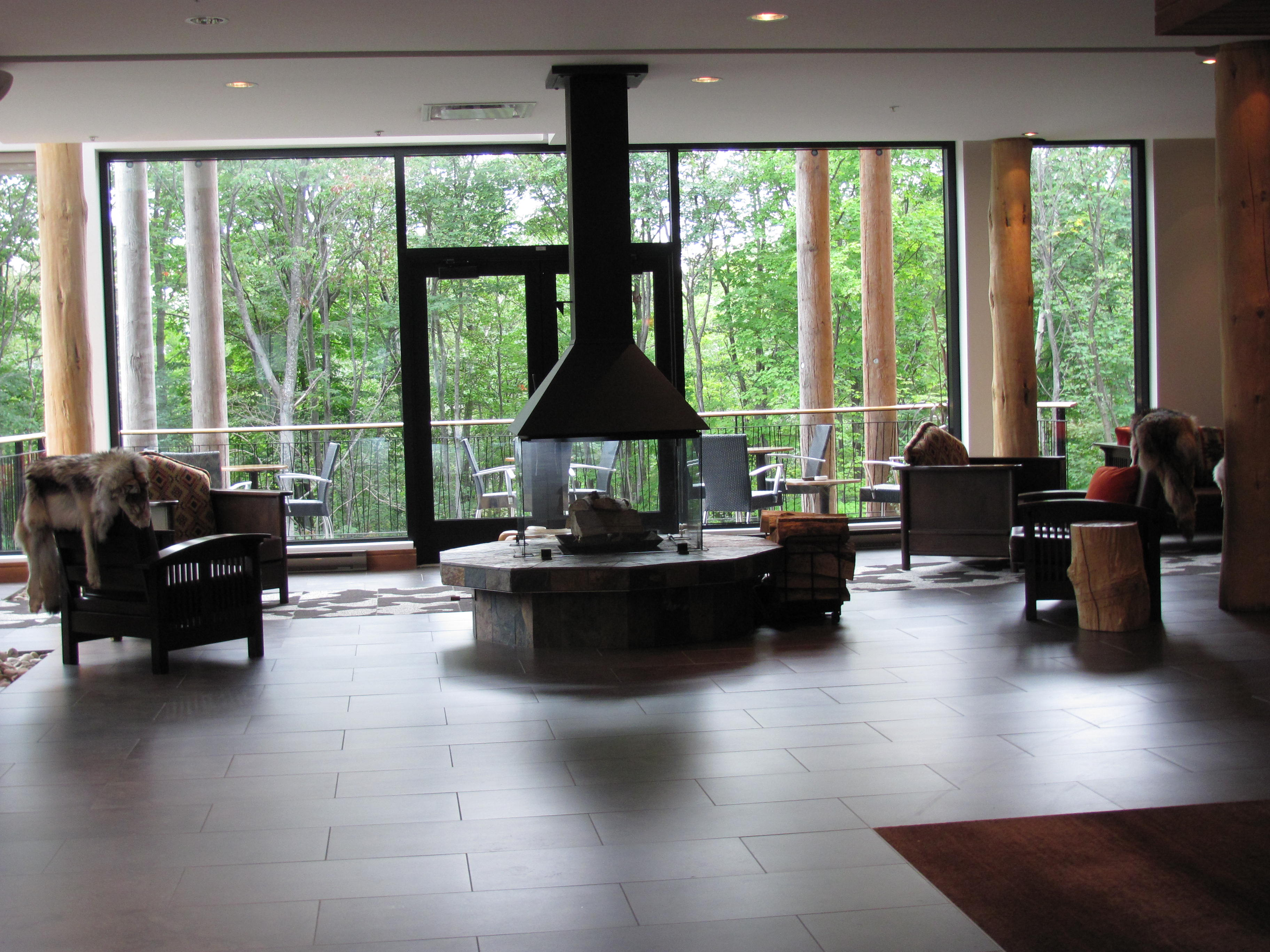 Hall of Hôtel-Musée Premières Nations located to Wendake, Québec, Canada.